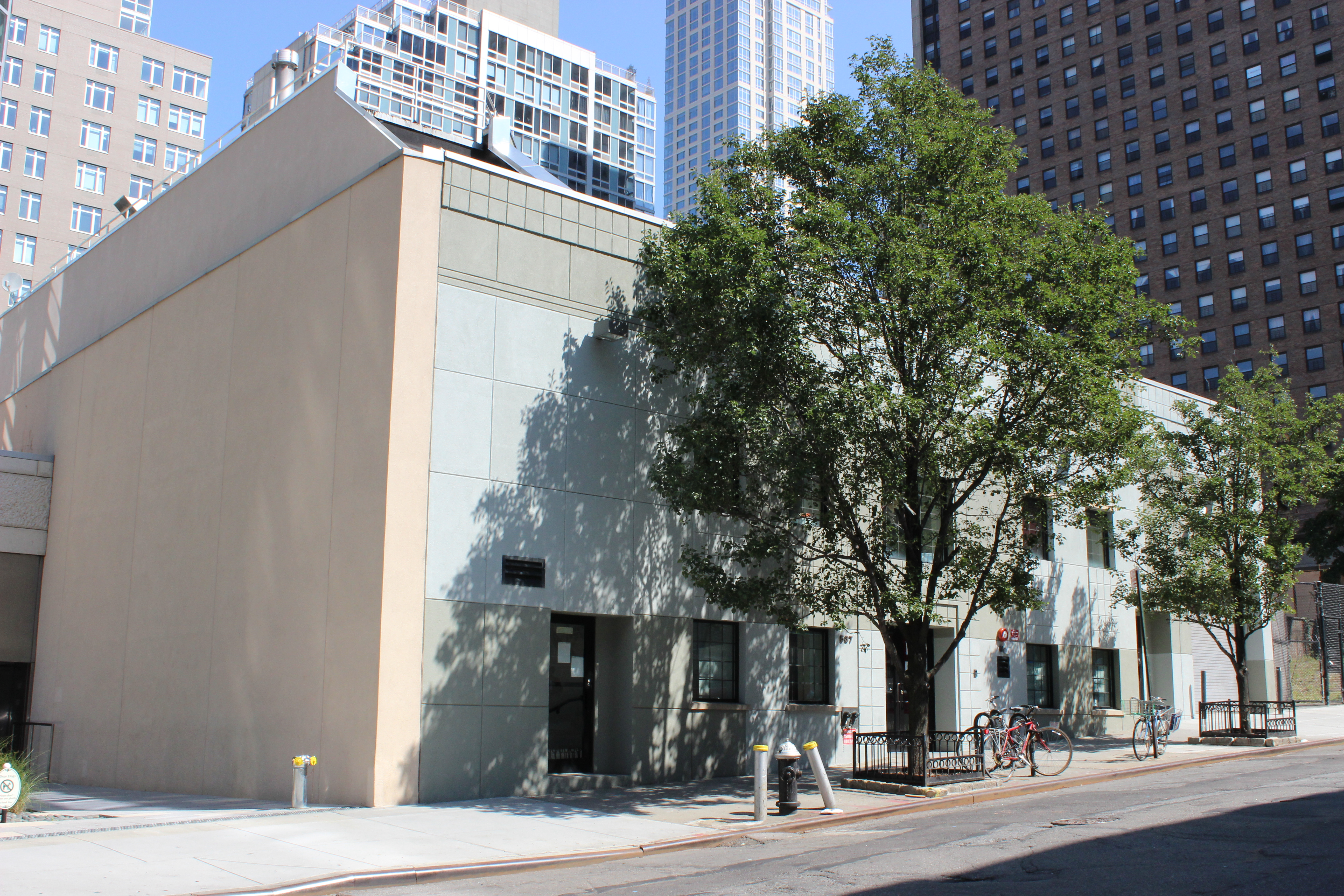 MNN's 59th Street Studios, which houses studios and media education classrooms for use by Manhattan residents.